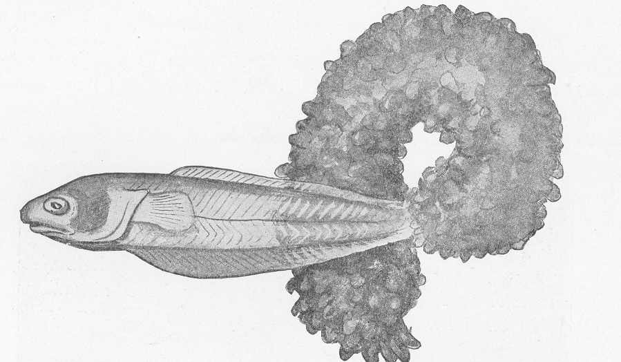 Pearlfish, Fierasfer acus (Linnaeus), issuing from a Holothurian. Coast of Italy Subject: Carapidae Tag: Fish